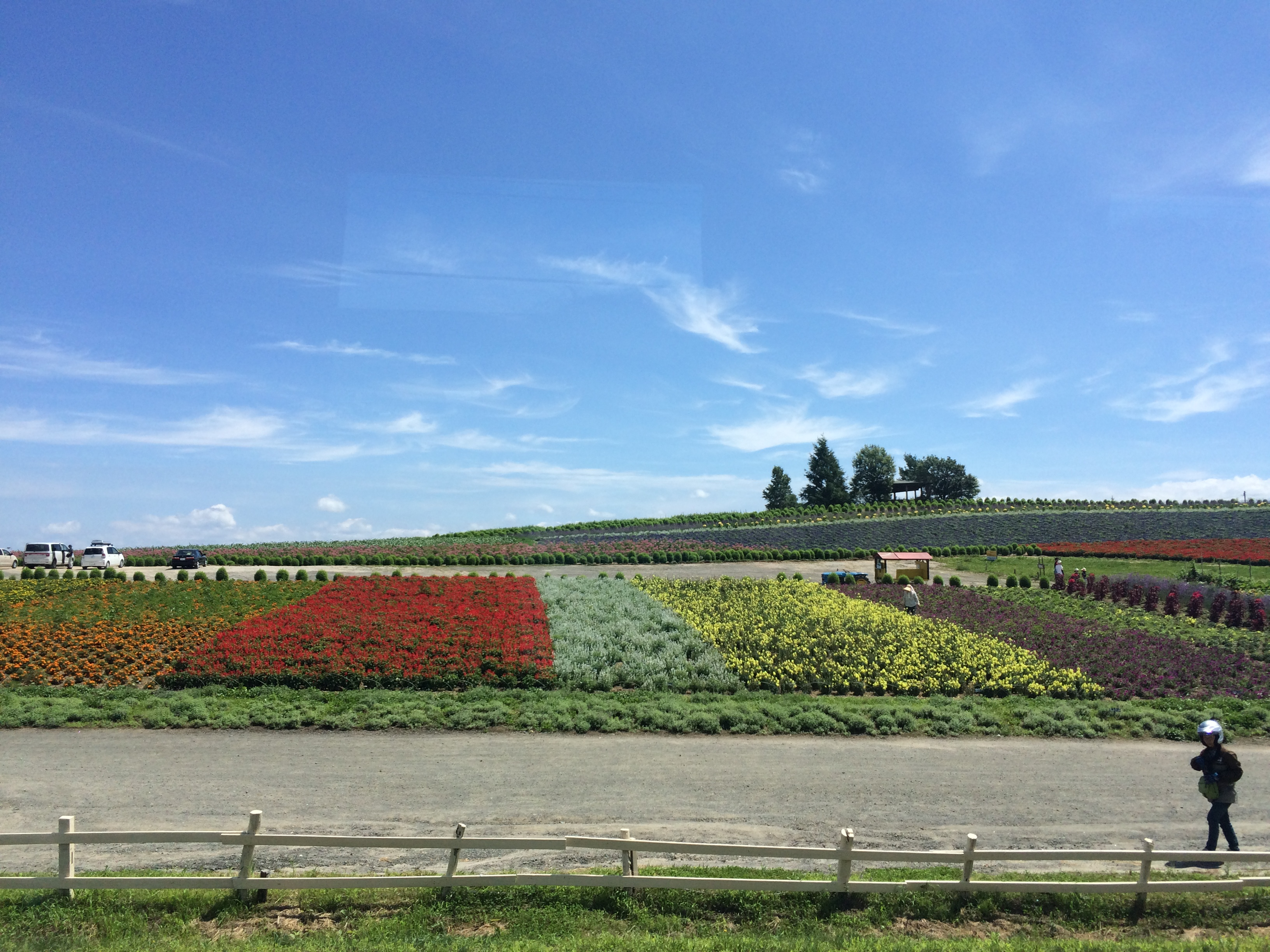 Nishi 12 Sen Kita, Kamifurano, Sorachi District, Hokkaido Prefecture 071-0512, Japan